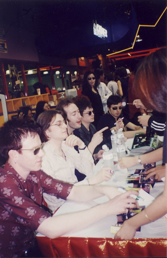 Suede in Thailand